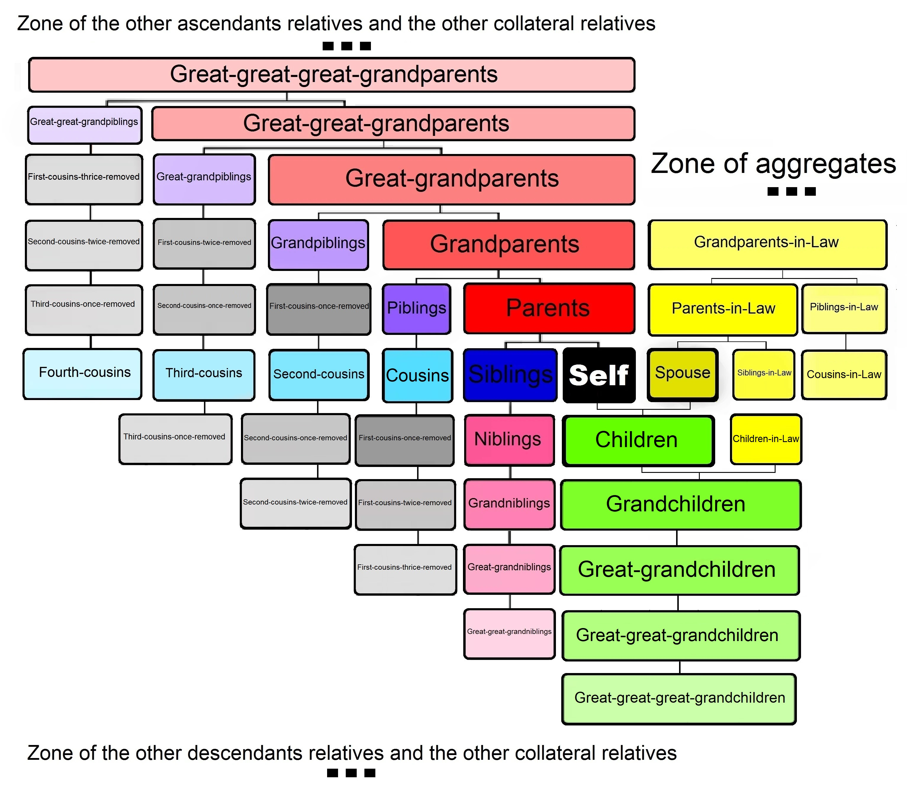 Relatives